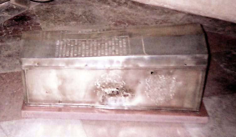 Grave of Princess Christina Augusta (1623-1624), daughter of King Gustav II Adolph, as displayed on the ground floor of the Gustavian Chapel at Riddarholm ChurchPlace: Stockholm, Sweden